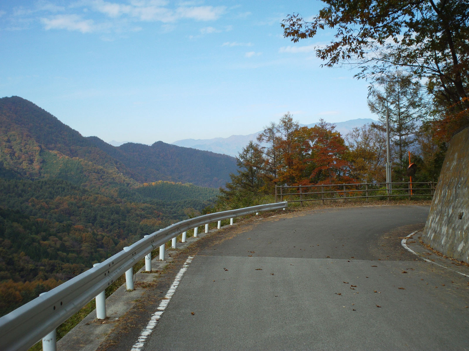 The Yamanashi Prefectural Road Route 212 in Koshu City